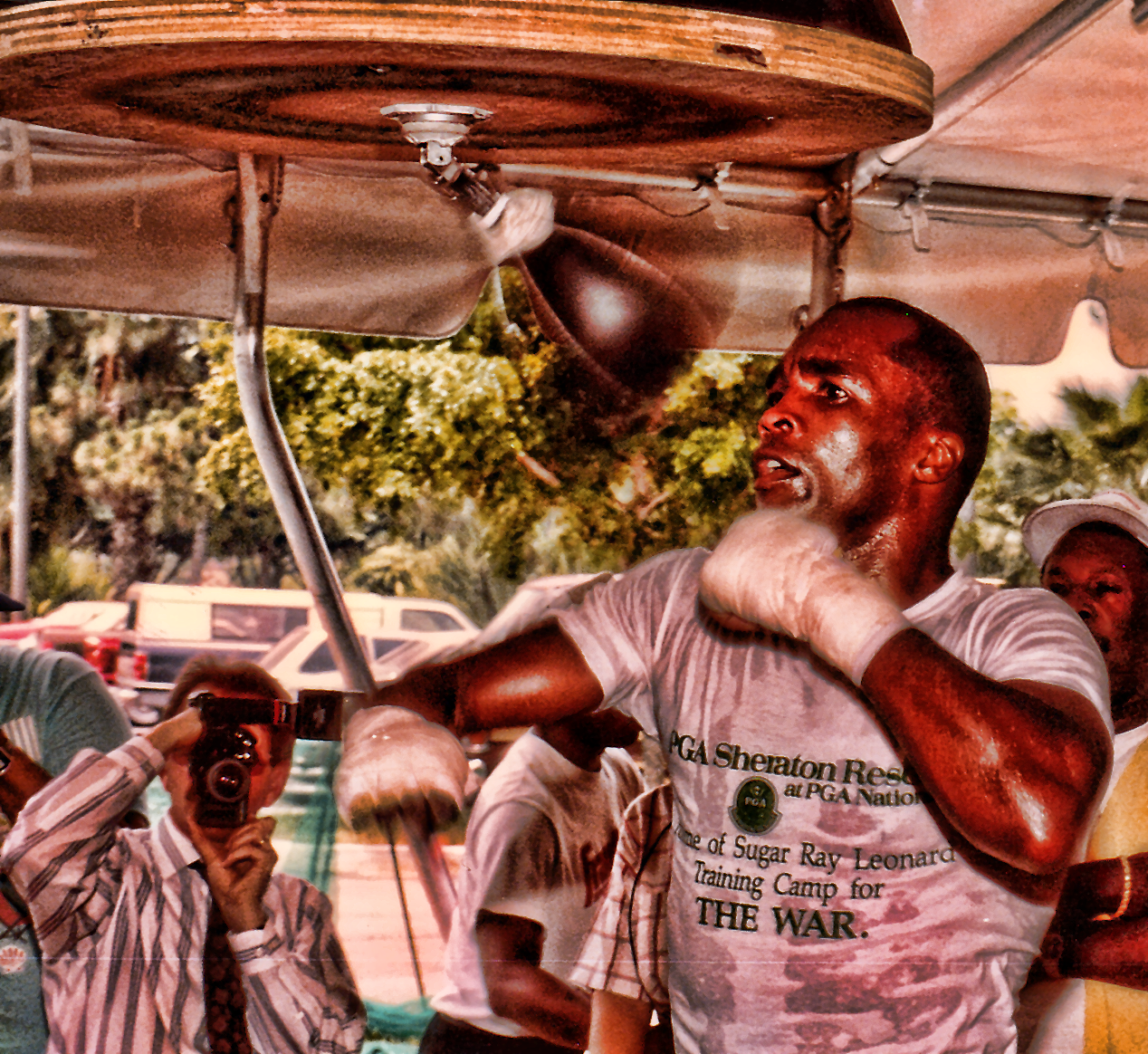 Mark shooting a photo of Sugar Ray Leonard at the Sheraton Resort in Palm Beach Gardens, Florida, May, 1989. Ray was training in a huge white tent for his upcoming fight with Tommy "hit man" Hearns. Ray was in great shape and quite cordial with the audience. He pounded the speed bag and sparred with several of his team members. He allowed us to shoot photos before, after and during his workout. He showed he was a true champion on that day.